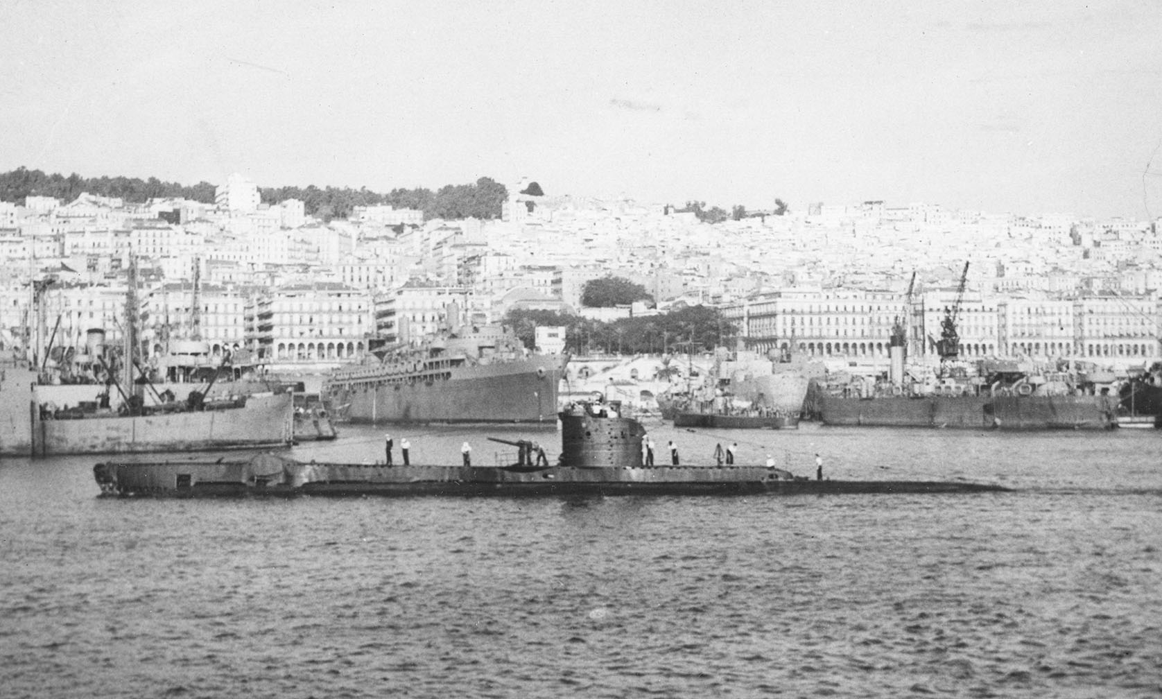 HMS Universal (P57) port side on October 16, 1943 while steaming in Algiers Harbor